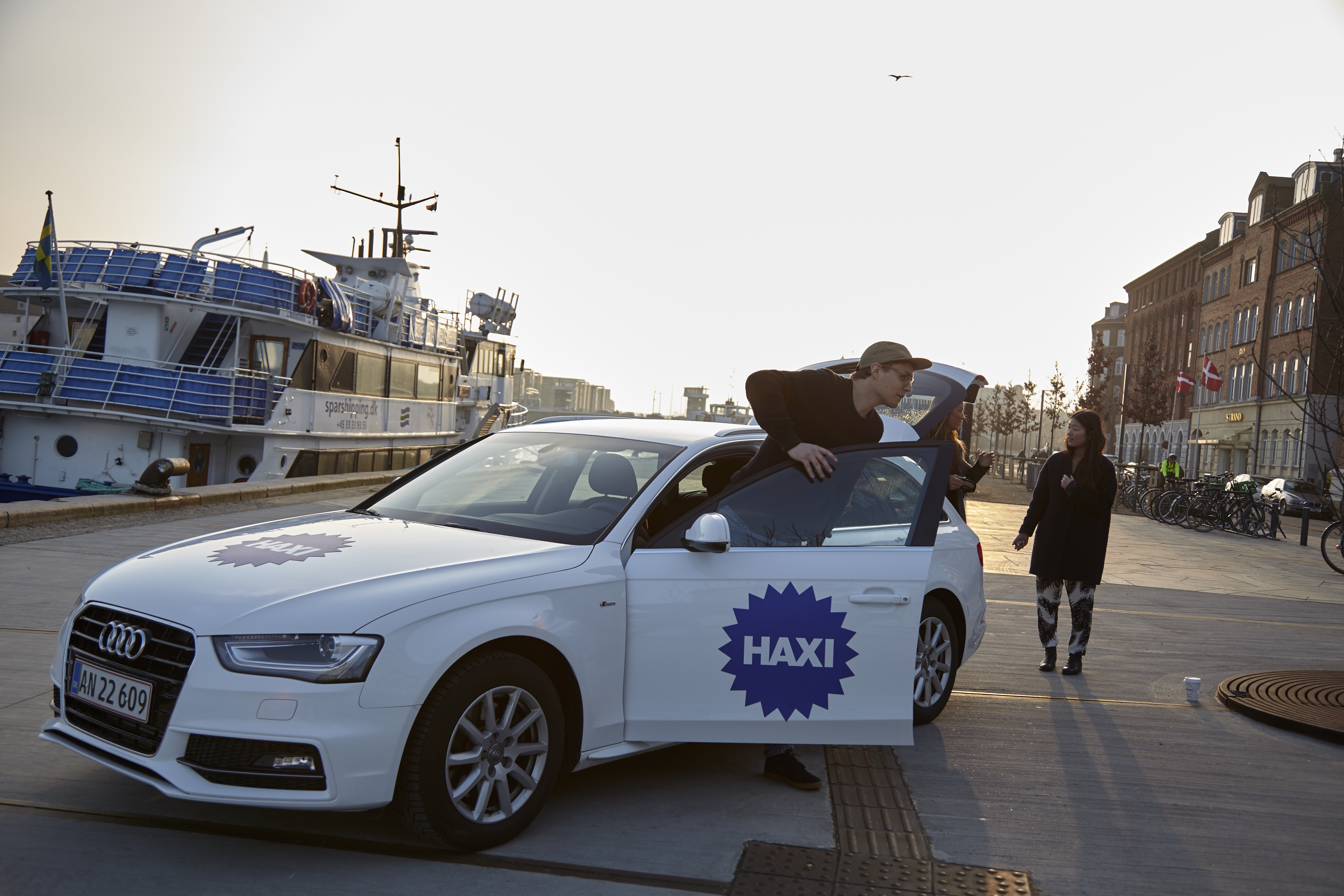 Haxi driver picks up carpooling passengers at the Copenhagen Harbor